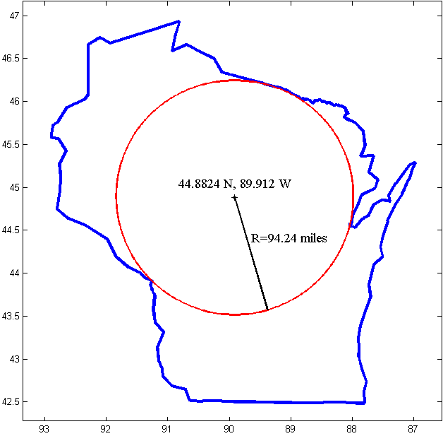 The pole of inaccessibility for Wisconsin. This is the point furthest from the border of Wisconsin, and therefore furthest from any point which is not in the state. The location was calculated and the image generated using Matlab.